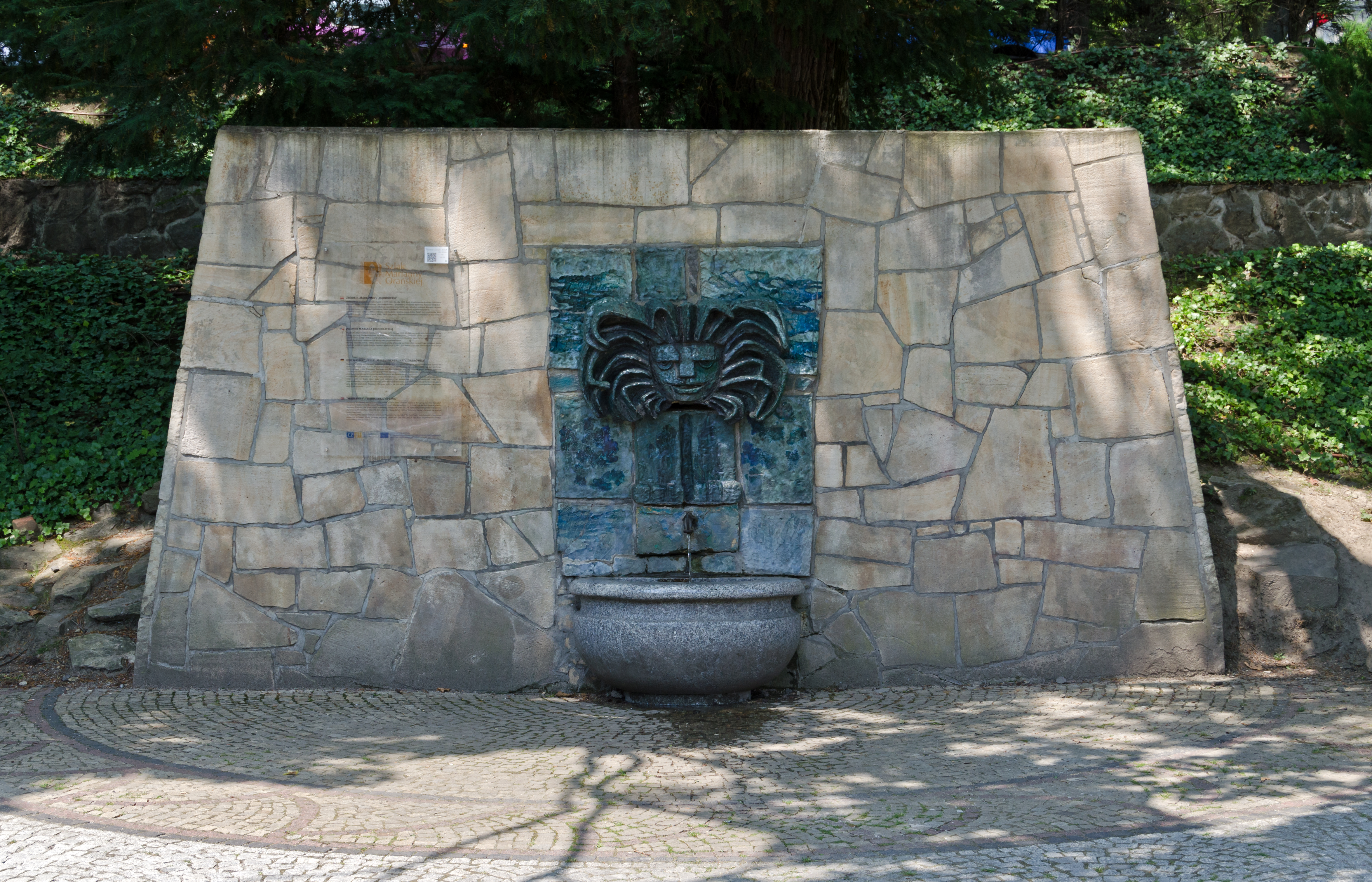 Spa gardens in Lądek-Zdrój, Dąbrówka spring